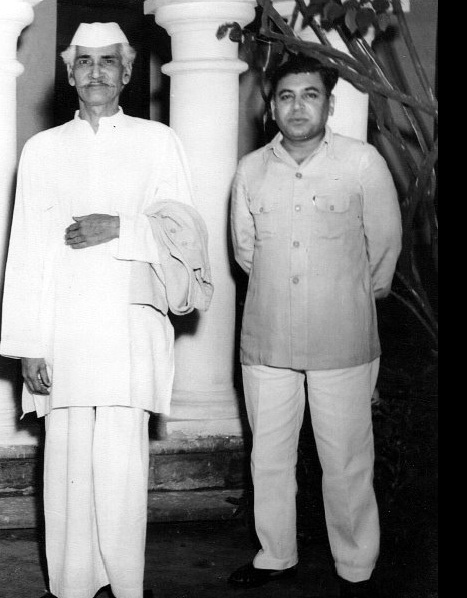 This photo was taken when Acharya Narendra Deva visited Anant Maral Shastri at his Indore residence in 1949.